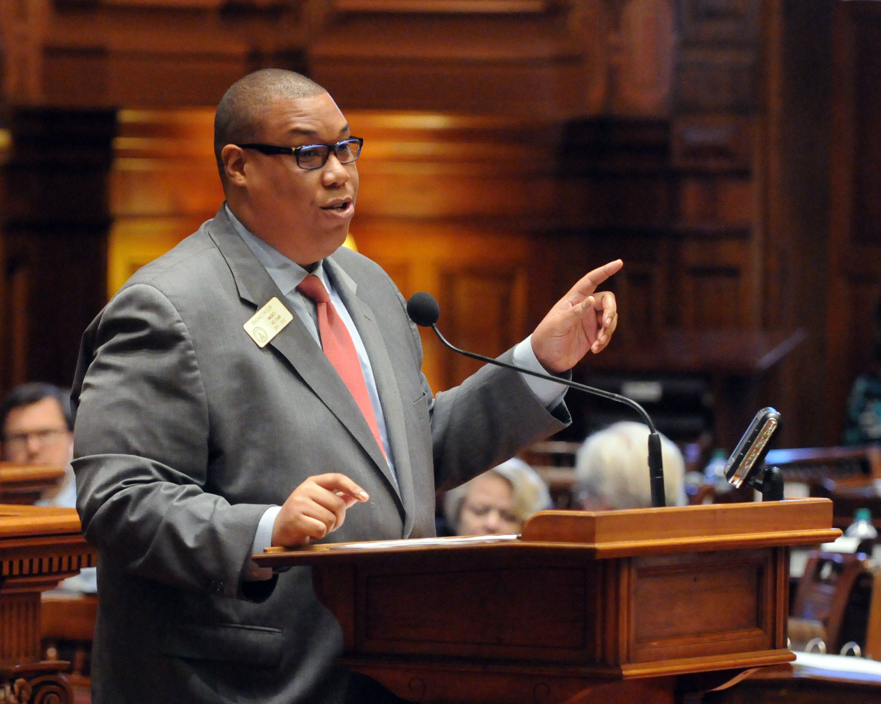 Rep. Taylor speaking in House of Representatives